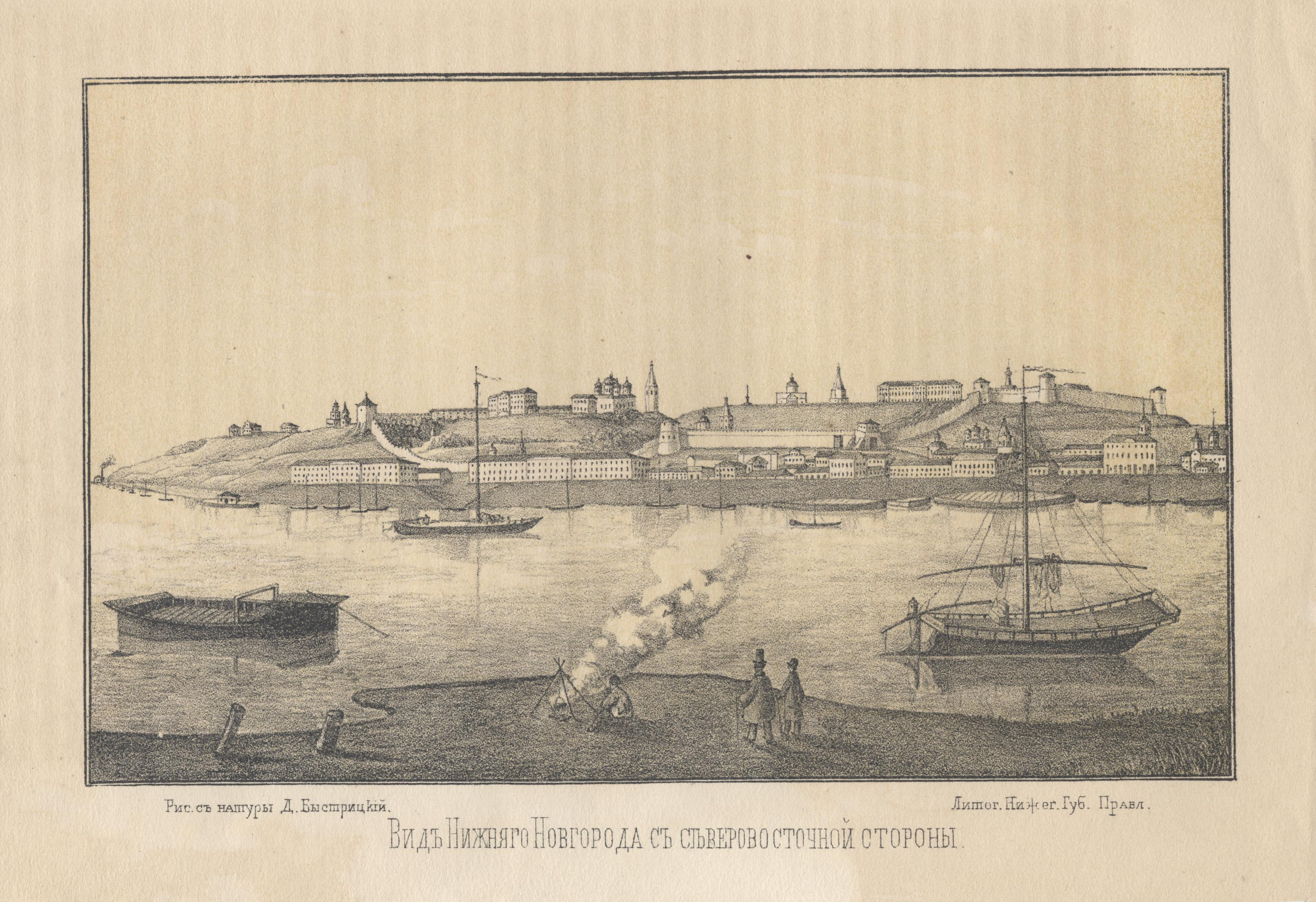 Nizhny Novgorod. Kreml